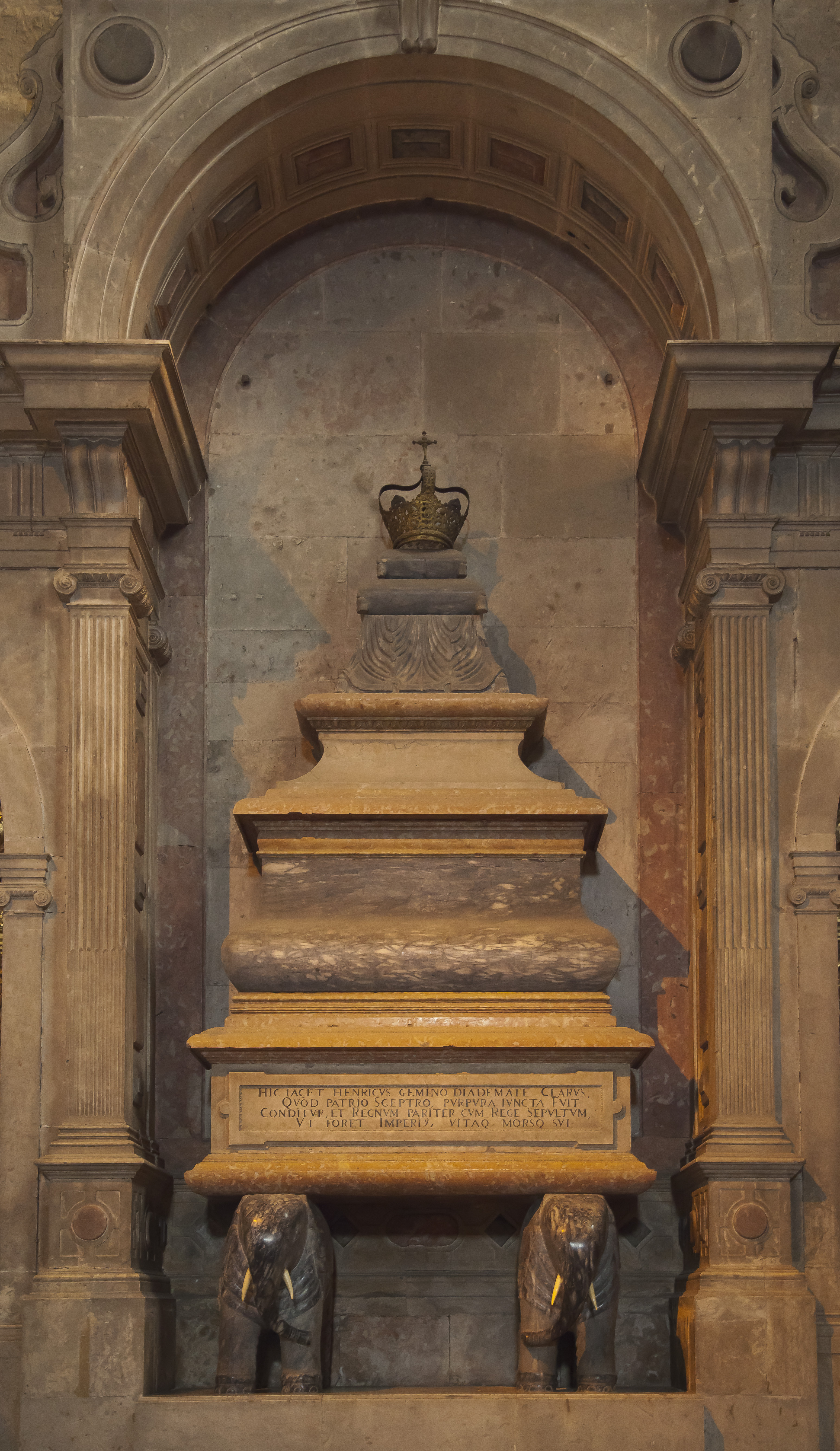 Church of Santa Maria de Belém, Lisbon, Portugal